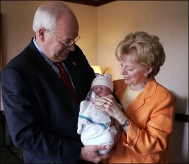 Vice President Dick Cheney and his wife Lynne became grandparents today, for the fourth time. Philip Richard Perry was born at 11:02 a.m. at Sibley Memorial Hospital in Washington, D.C., July 2, en:2004. He weighed 8 pounds, 6 ounces. His parents are Liz Cheney and Phil Perry, the daughter and son-in-law of the Cheneys. White House photo by David Bohrer.